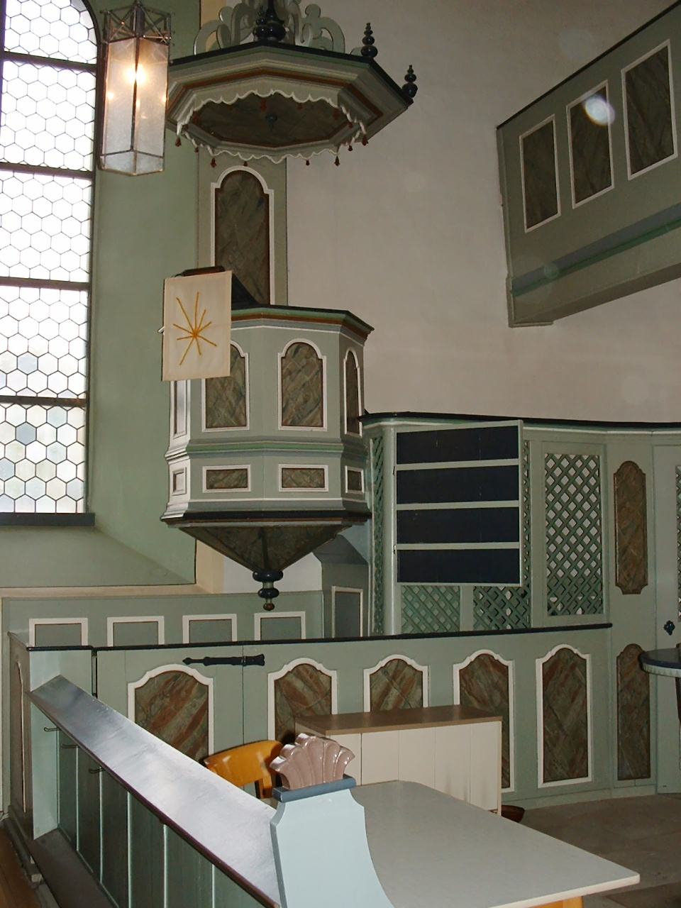 Evangelische Kirche Allenbach (Hunsrück), Kanzel